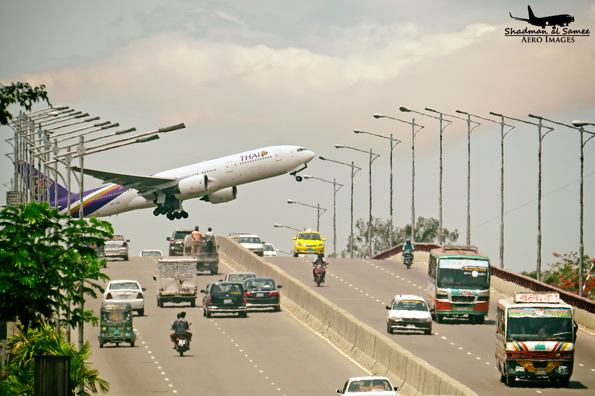 This is a multi-shot composition, but I think it might be possible to get similar shots like this for real, if luck favors.